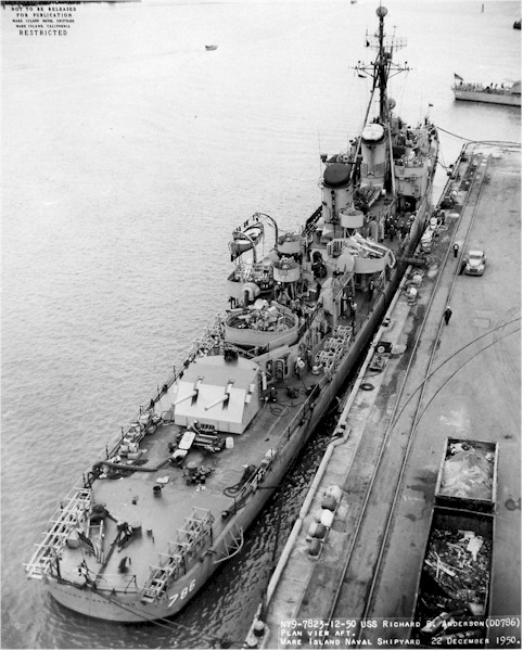 Navy Photo 7823-12-50, aft plan view of USS Richard B. Anderson (DD-786) at Mare Island on 22 Dec 1950. The stern of the USS Bausell (DD 845) is just visible forward.